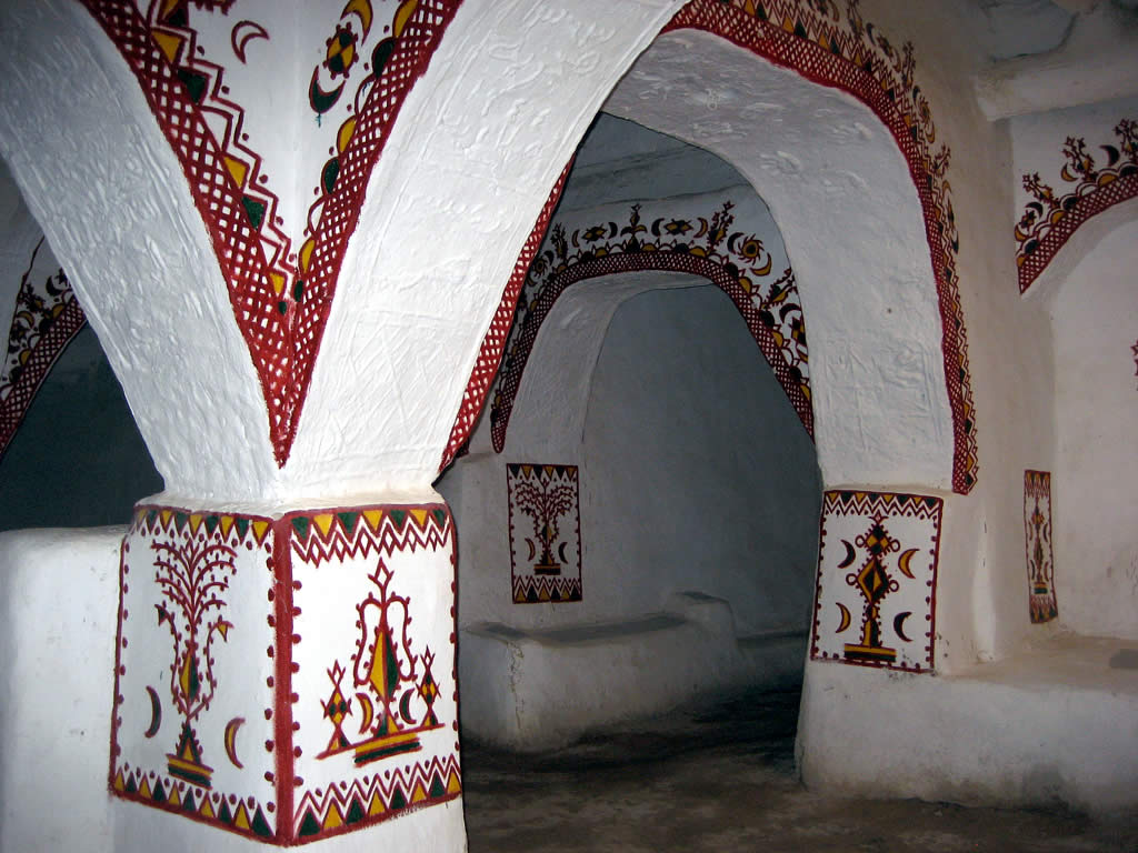 the portico of a mosque in the old city of Ghadames.